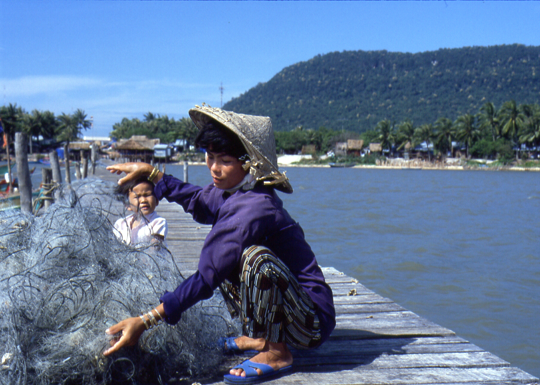 Mother and daughter cleaning a fishing net on a long pier in front of Ham Ninh village in Phu Quoc, Vietnam, December 2002.